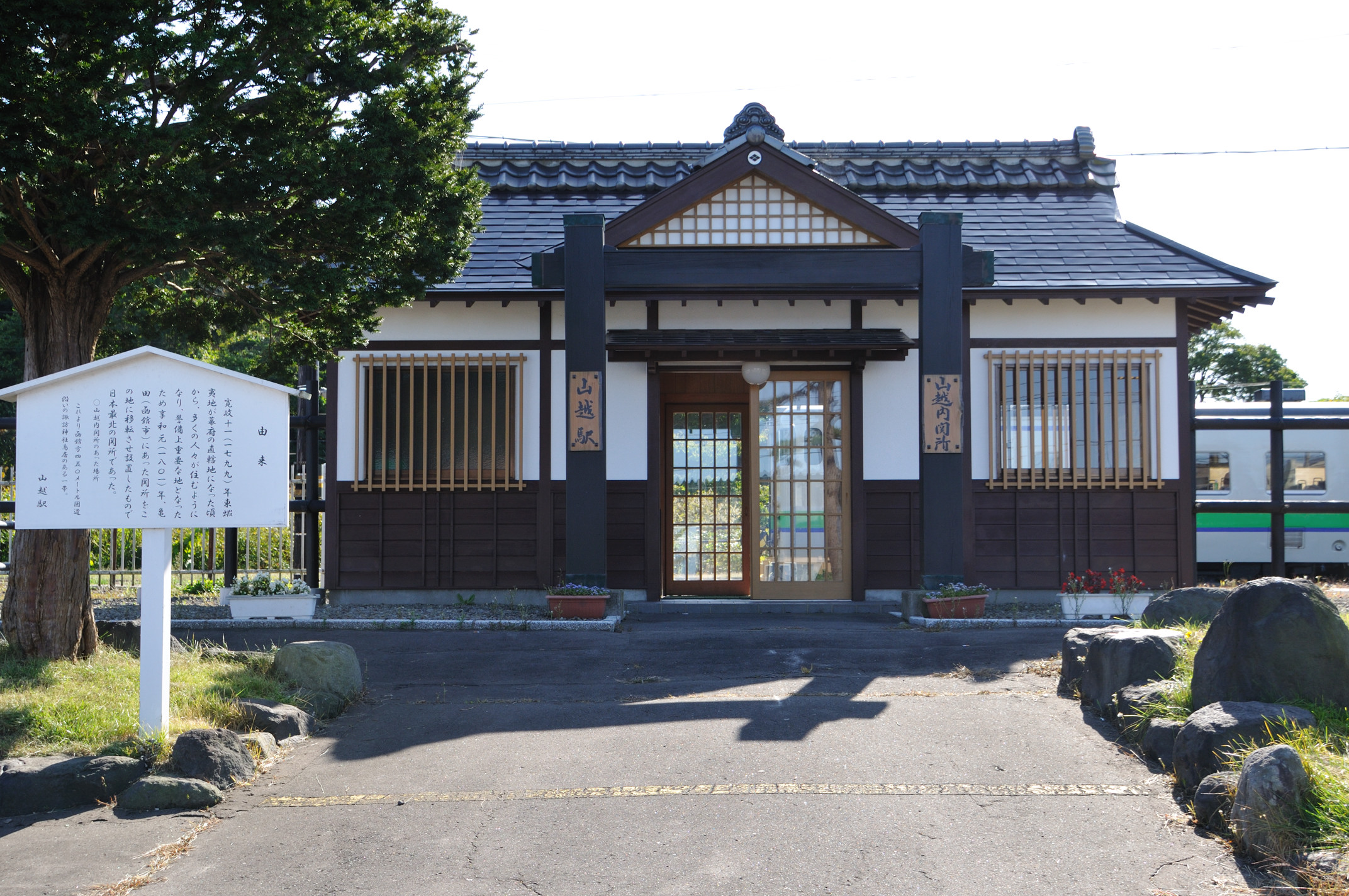 JR Hokkaido Yamakoshi station, Yakumo, Hokkaido, Japan